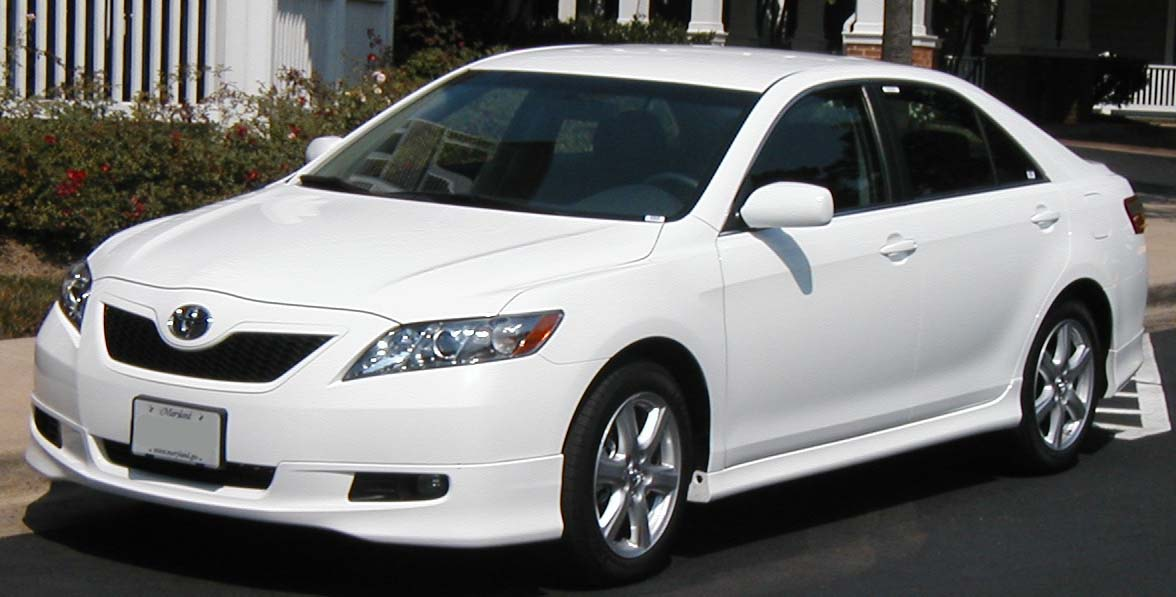 2007 Toyota Camry SE photographed in USA.